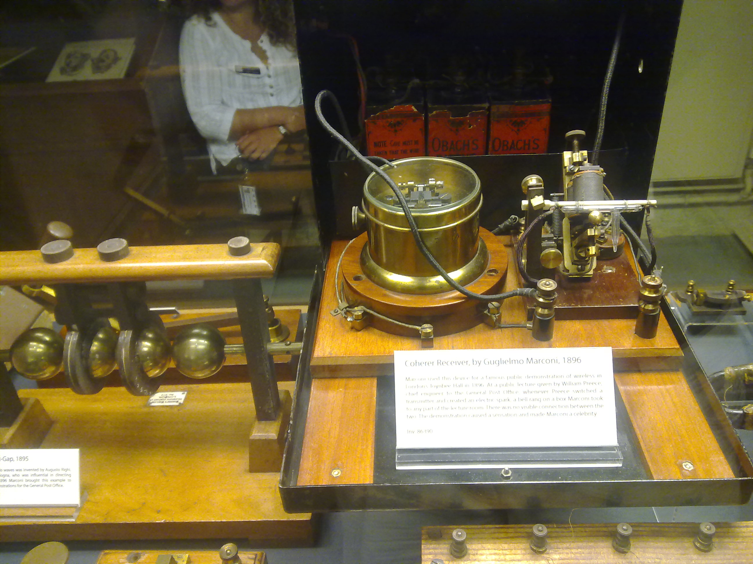 A pioneering radio receiver using a coherer, a tube of metal filings, as a detector constructed by Italian radio inventor Guglielmo Marconi in 1896, on display in the Oxford Museum of the History of Science, UK. The coherer is the glass tube on the right. When it detected a radio signal it rang a bell. This receiver was used in a landmark 1896 demonstration of radio communication at Toynbee hall that made Marconi a celebrity. The transmitter that was used with it (metal balls) is seen on the left. Caption on card: "Coherer receiver by Guglielmo Marconi, 1896: Marconi used this device for a famous public demonstration of wireless in London's Toynbee Hall in 1896. At a public lecture by William Preece, chief engineer of the General Post Office, whenever Preece switched a transmitter and created an electric spark, a bell rang in a box Marconi took to any part of the lecture room. There was no visible connection between the two. The demonstration caused a sensation and made Marconi a celebrity."